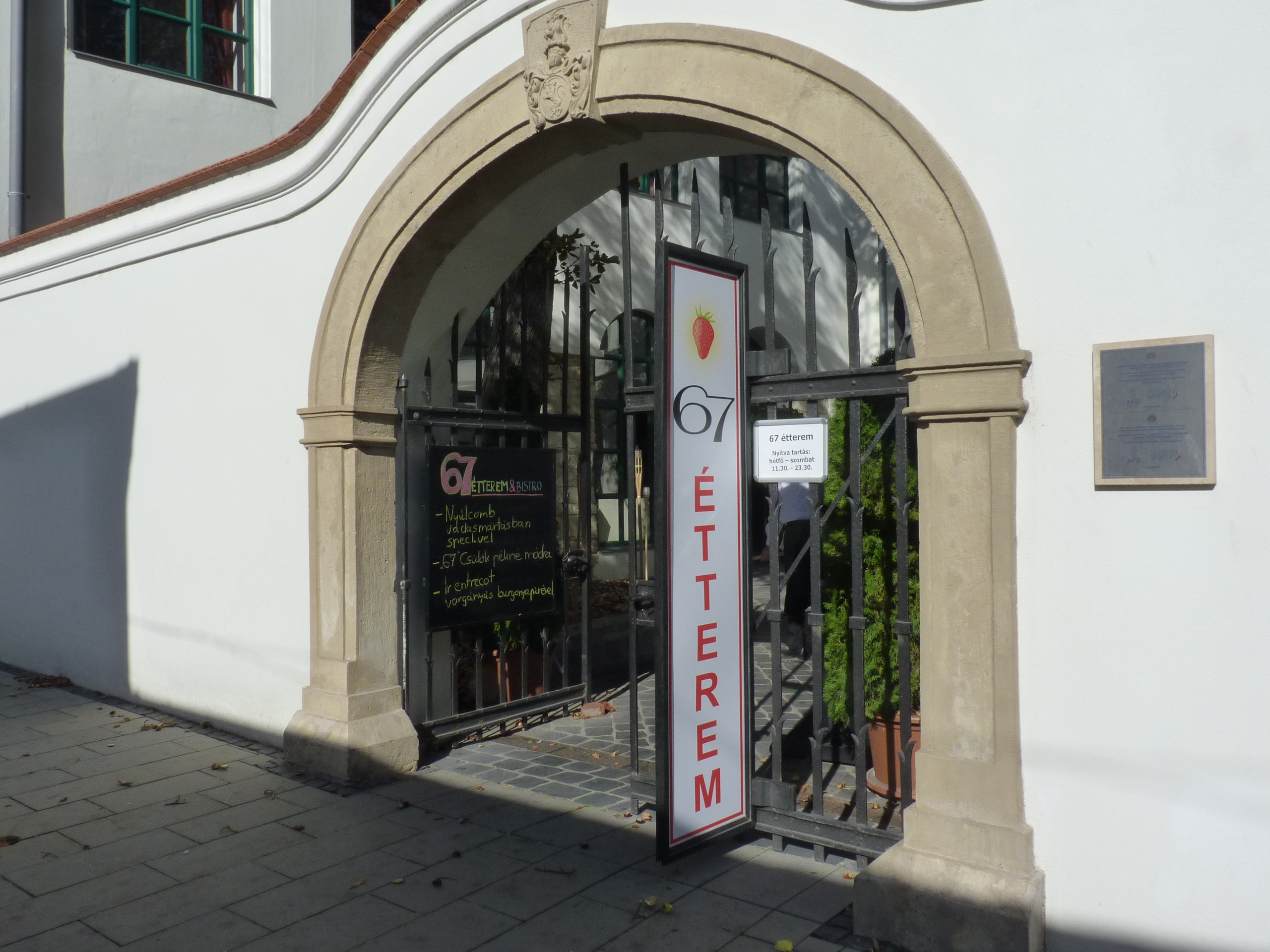 Entrance of 67 Restaurant, Székesfehérvár